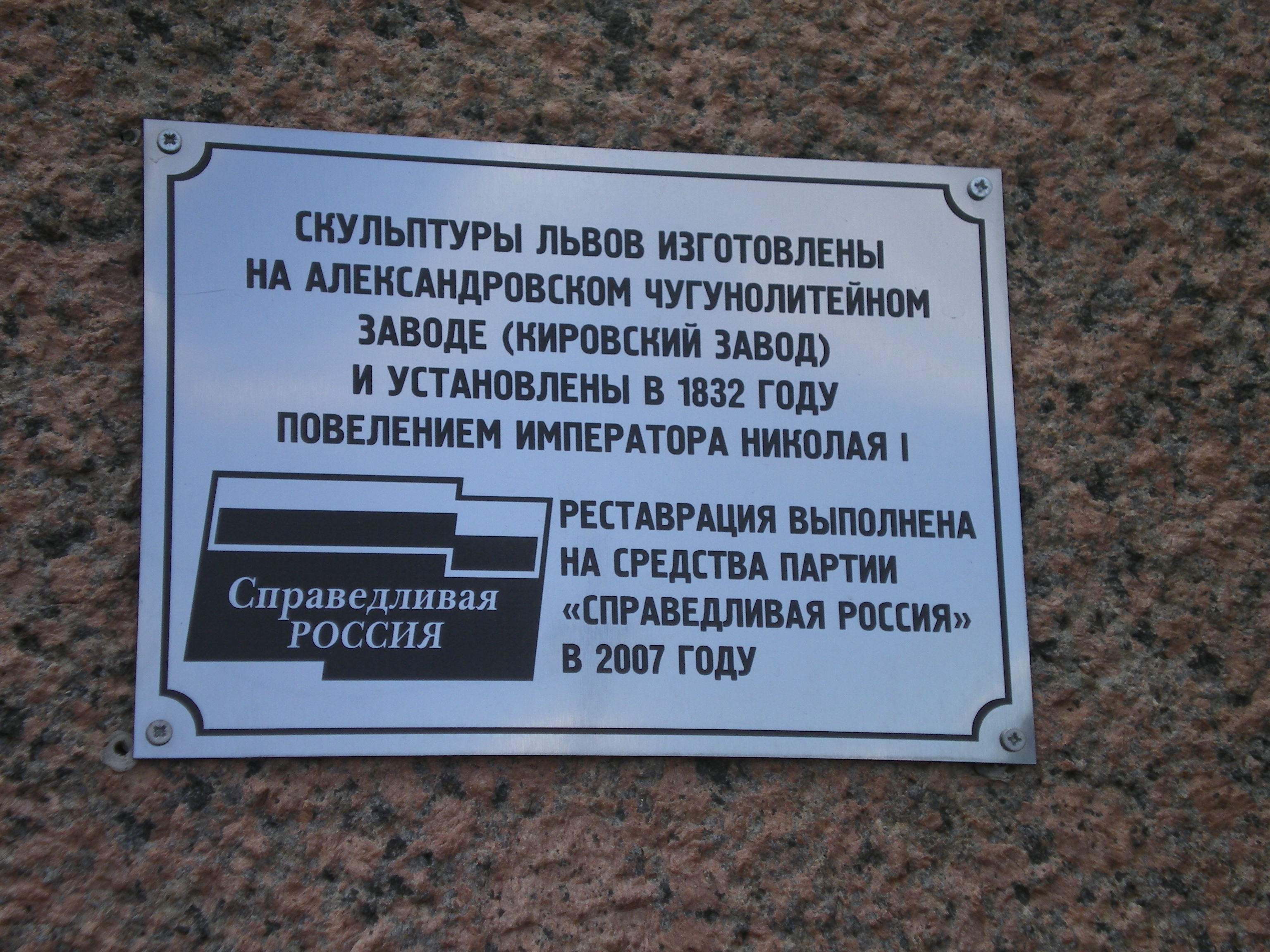 The plate on a pedestal upper lion